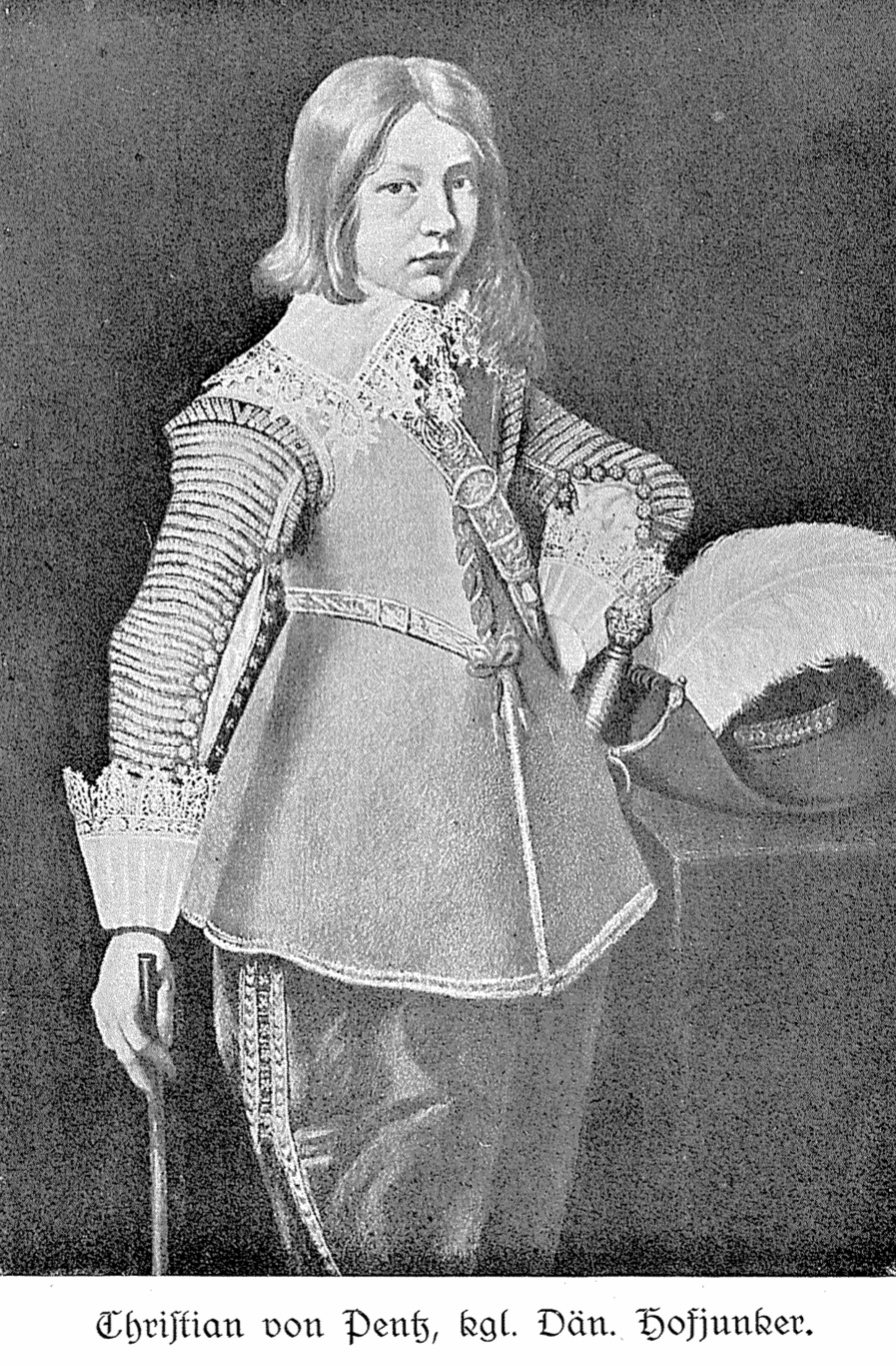 Christian v. Pentz als kgl. Dän. Hofjunker